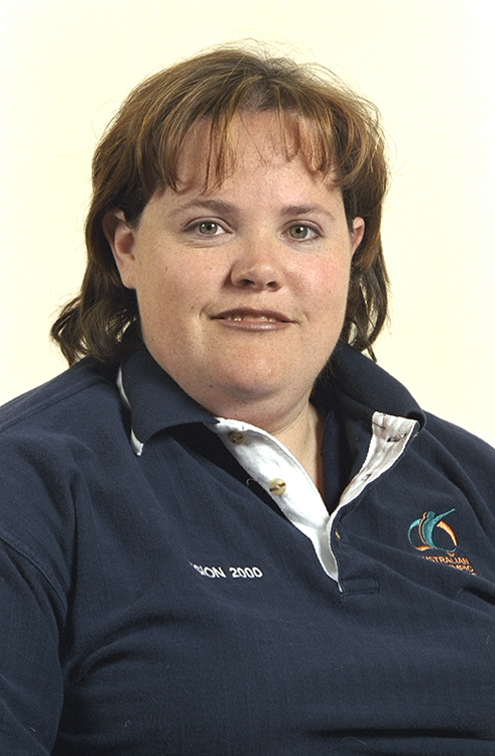 Portrait of Australian athletics competitor Lynda Holt, 2000 Australian Paralympic Team athlete